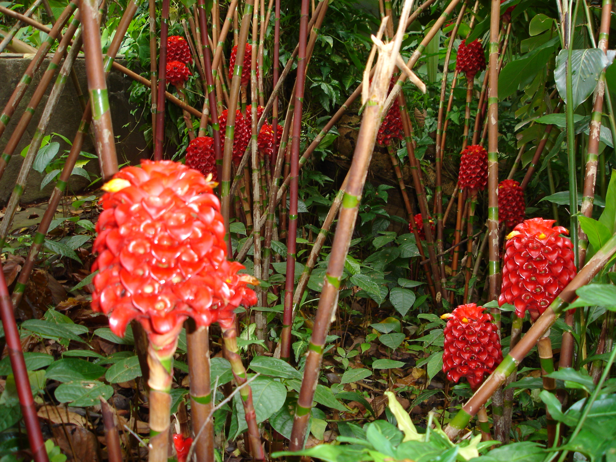 Tapeinochilos ananassae, Wax Ginger, photographed in Basse Terre, Guadeloupe